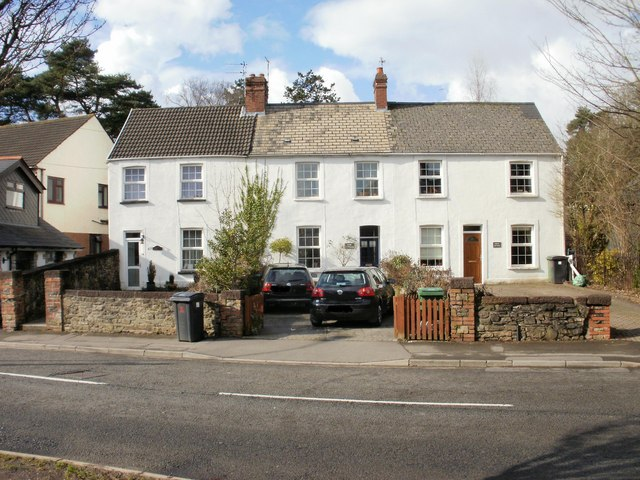 Three cottages, Pantmawr Road, Coryton, Cardiff From left to right are Ivy Cottage, Rose Cottage and Holly Cottage.